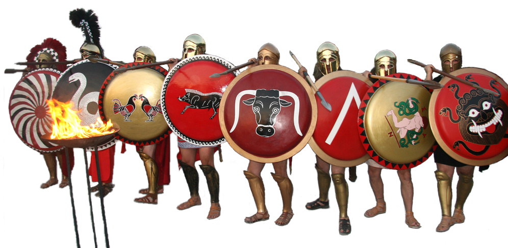 Hoplites of Ancient Greece (in modern Greece) in a 5th century B.C. portrayal of a hoplites advancing.